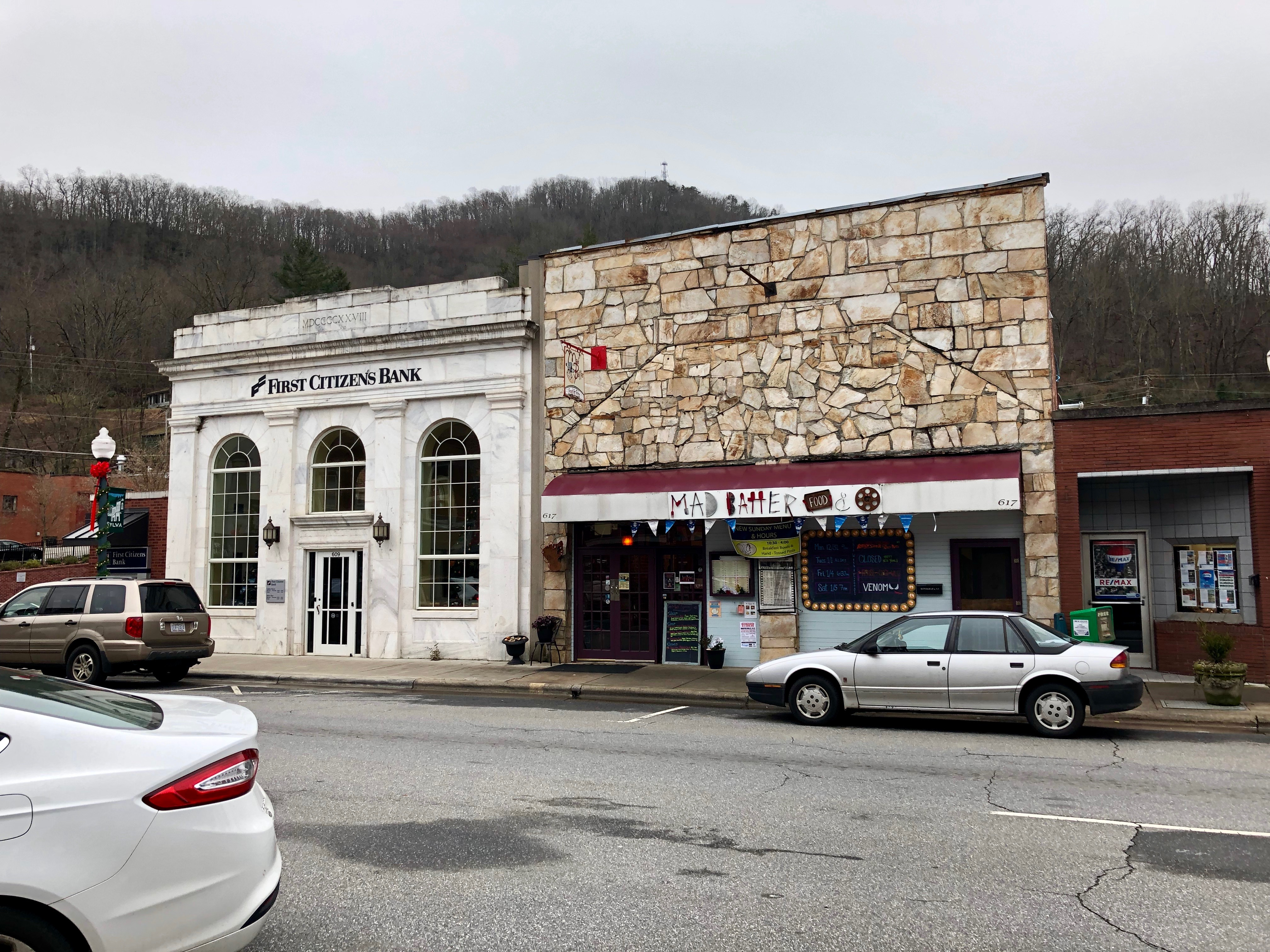 Main Street, Sylva, NC